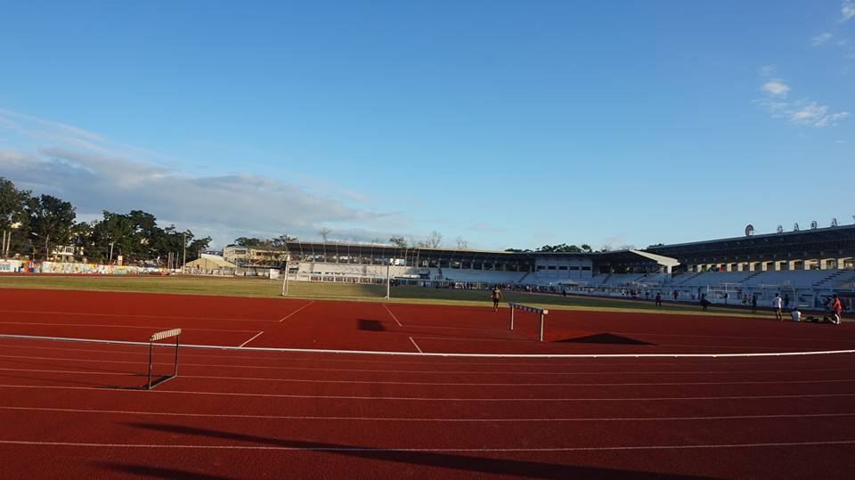 Governor of Cagayan Province Manuel Mamba inspecting the Cagayan Sports Complex before the upcoming CVRAA (Cagayan Valley Regional Athletic Association) Meet this coming Febuary 2018.